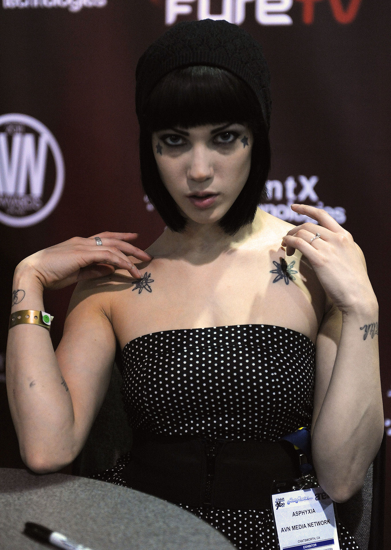 Asphyxia at AVN Adult Entertainment Expo 2011